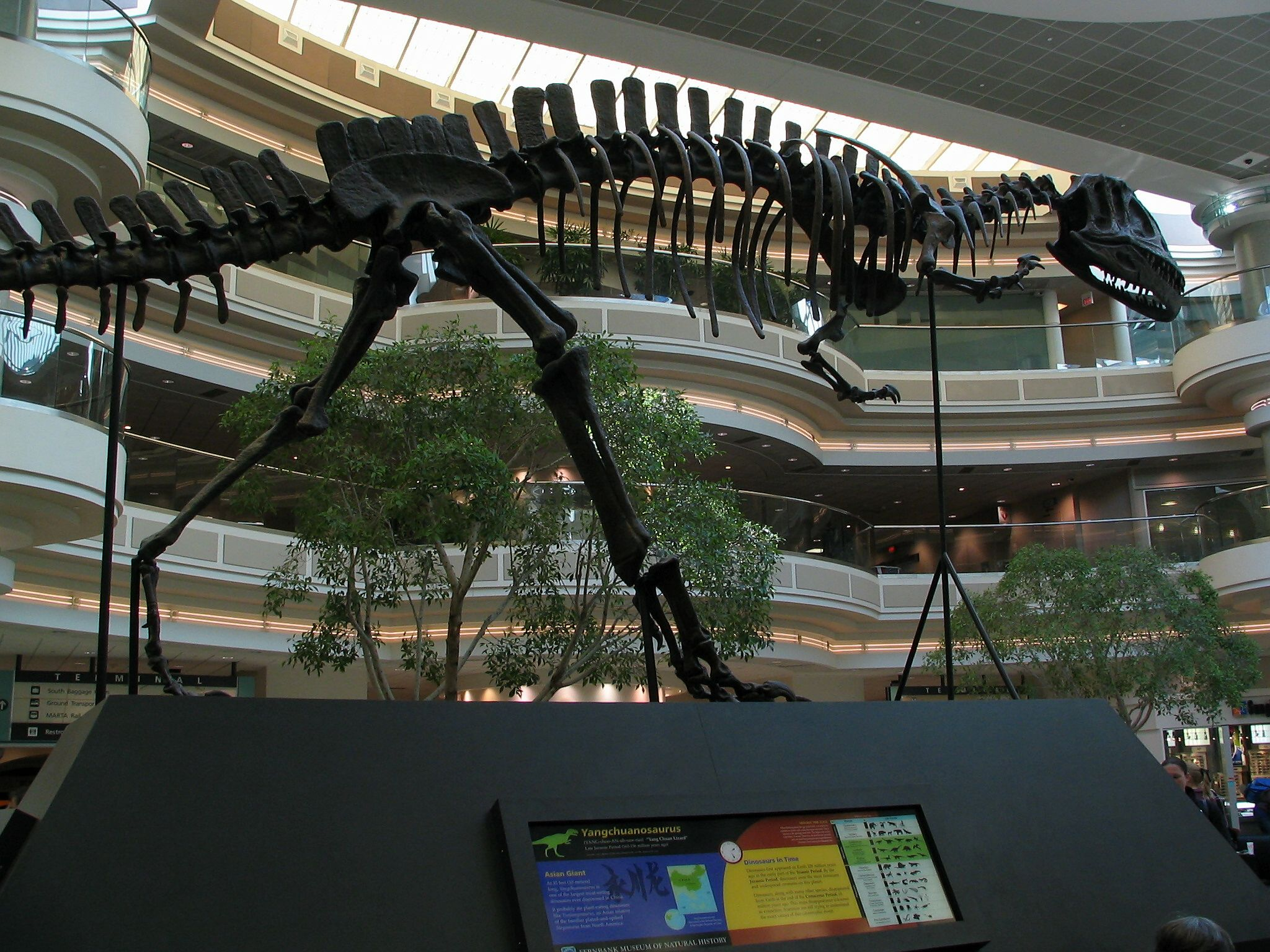 Dinosaur stalking visitors at Hartsfield-Jackson Atlanta International Airport.